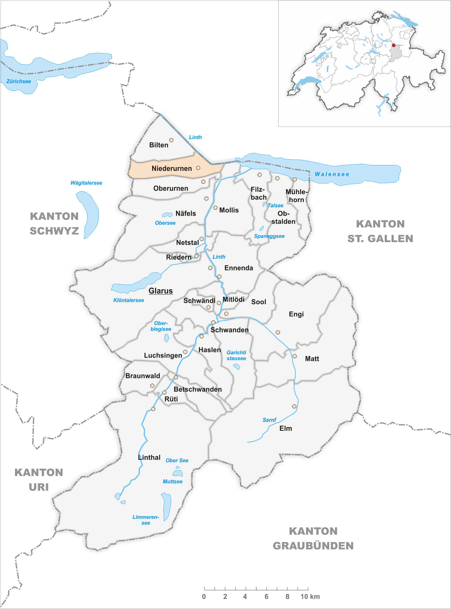 Municipality Niederurnen